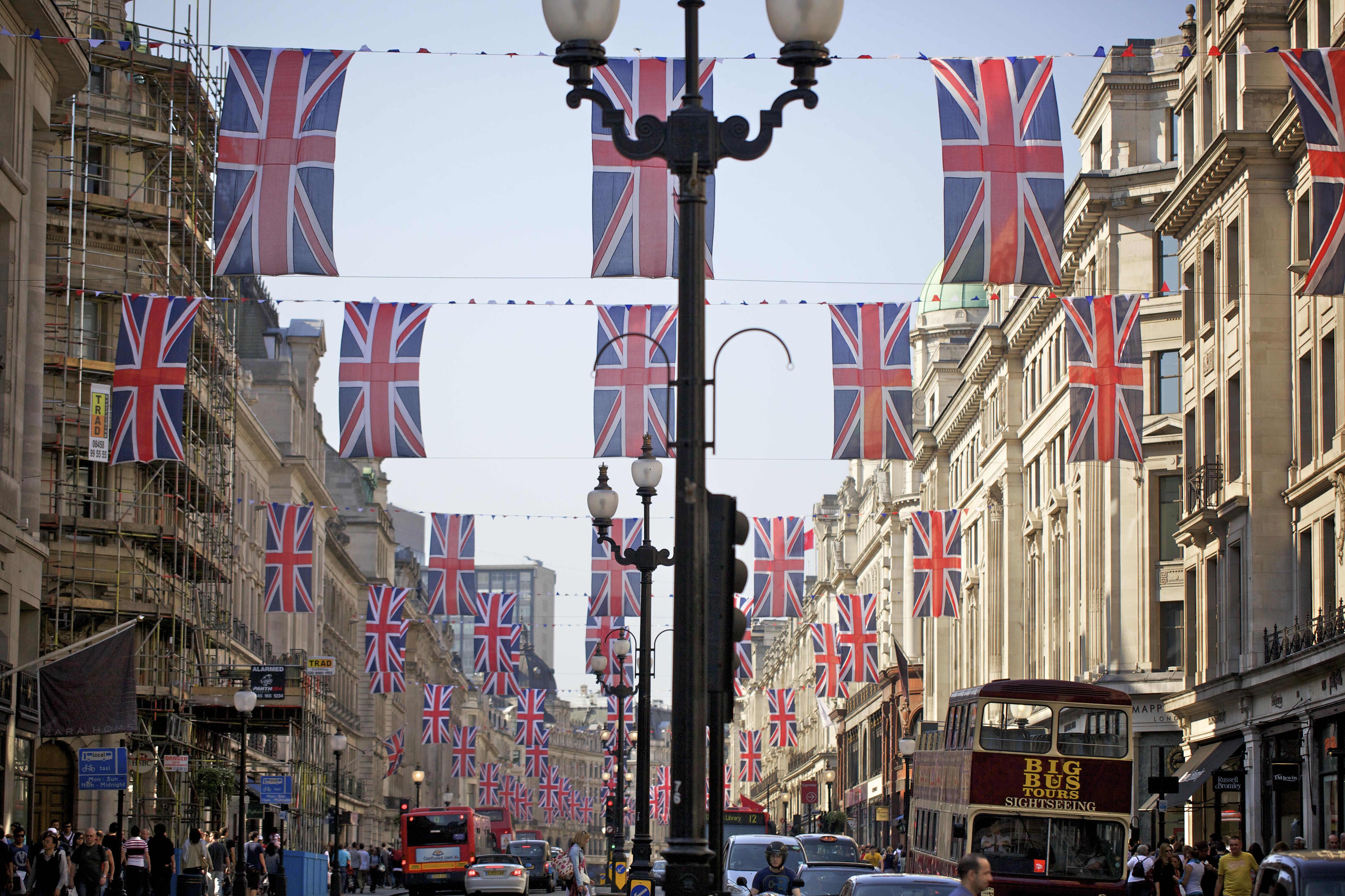 Regent Street four days before the royal wedding